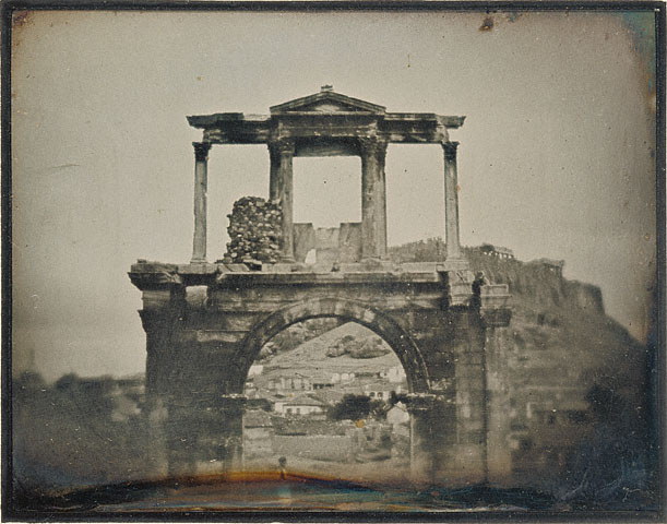 Daguerreotype 2 3/4 x 3 9/16 in. 90.XT.65.9 Arch of Hadrian at Athens at the J. Paul Getty Museum